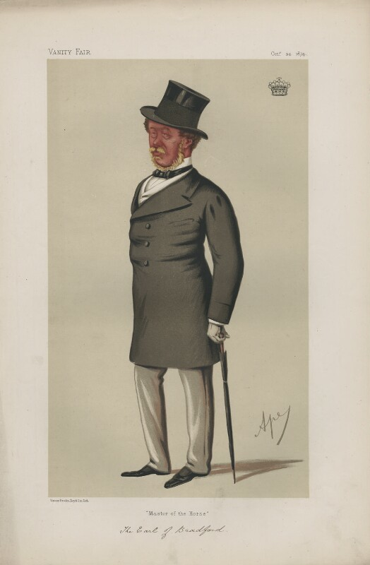 Caricature of Orlando Bridgeman, 3rd Earl of Bradford. Caption read "Master of the Horse".